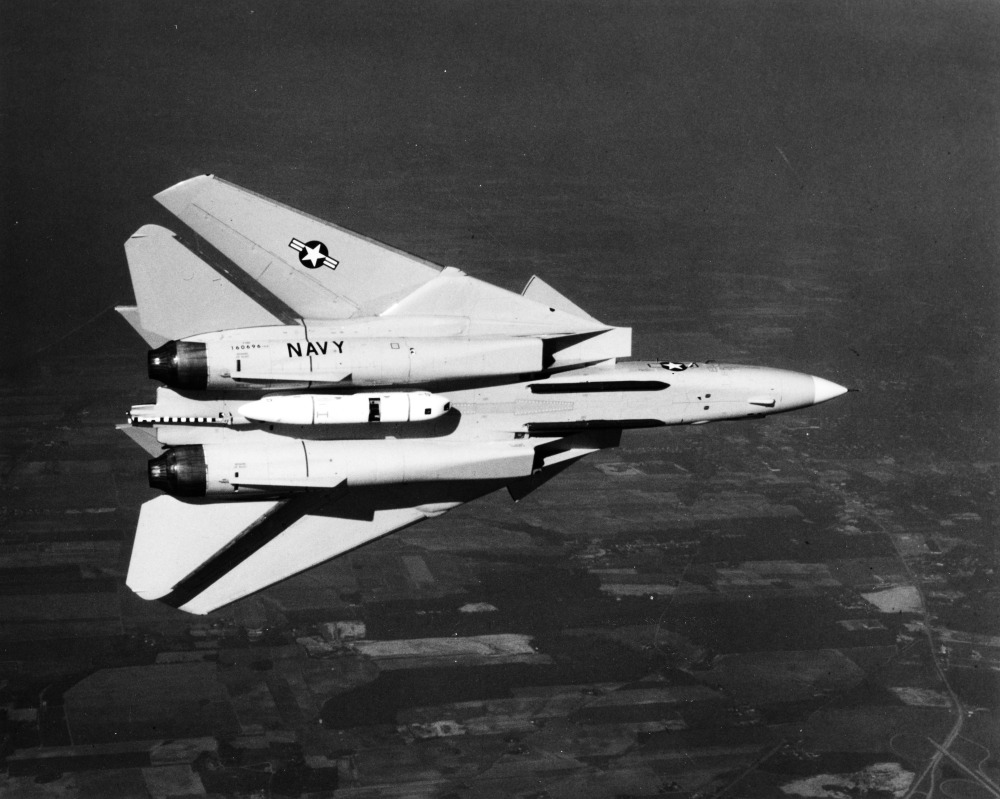 PictionID:42253894 - Title:Grumman F-14A 160696 with TRAPS pod (mfr via RJF) - Catalog:17_000094 - Filename:17_000094.tif - ------------Image from the René Francillon Photo Archive. Having had his interest in aviation sparked by being at the receiving end of B-24s bombing occupied France when he was 7-yr old, René Francillon turned aviation into both his vocation and avocation. Most of his professional career was in the United States, working for major aircraft manufacturers and airport planning/design companies. All along, he kept developing a second career as an aviation historian, an activity that led him to author more than 50 books and 400 articles published in the United States, the United Kingdom, France, and elsewhere. Far from “hanging on his spurs,” he plans to remain active as an author well into his eighties.-------PLEASE TAG this image with any information you know about it, so that we can permanently store this data with the original image file in our Digital Asset Management System.--------------SOURCE INSTITUTION: San Diego Air and Space Museum Archive